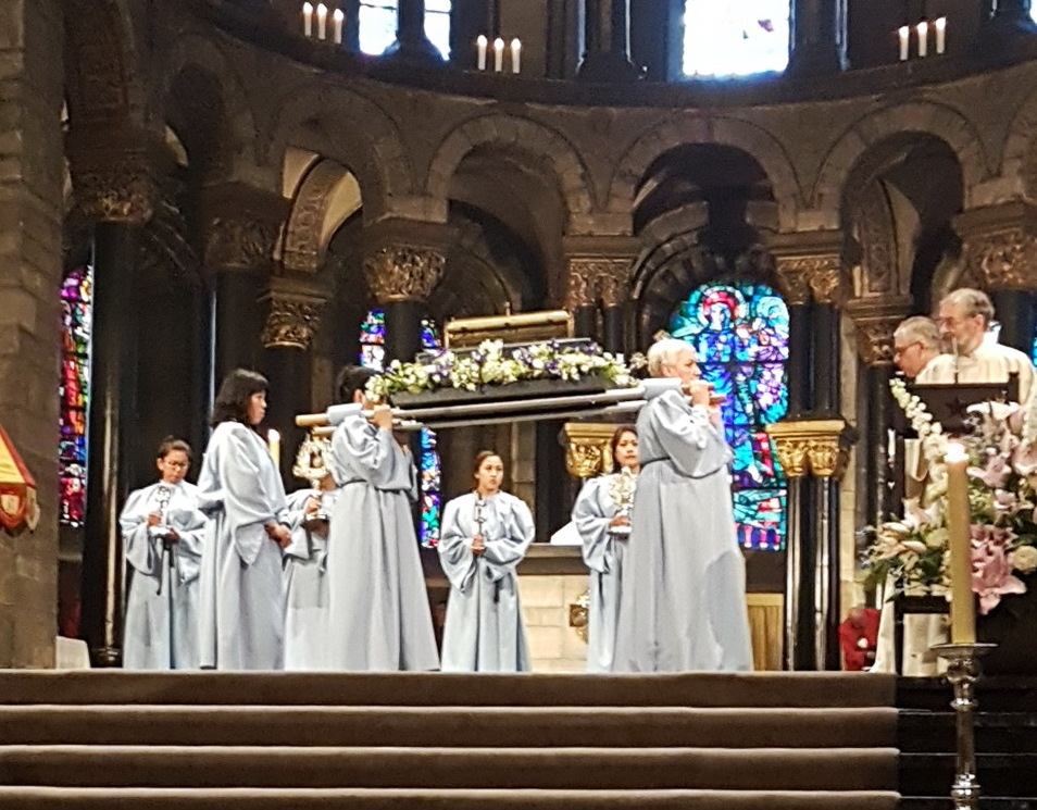 Presentation of reliquaries of holy women on top of the choir stairs of the Basilica of Our Lady in Maastricht, Netherlands. This is part of a church service in which the main relics of the church are venerated. It is one of the highlights of the 2018 Heiligdomsvaart ("relics pilgrimage"), a religious and historic event that takes place once in seven years and dates back to the Middle Ages. The main relic presented here is the girdle of the Virgin Mary.